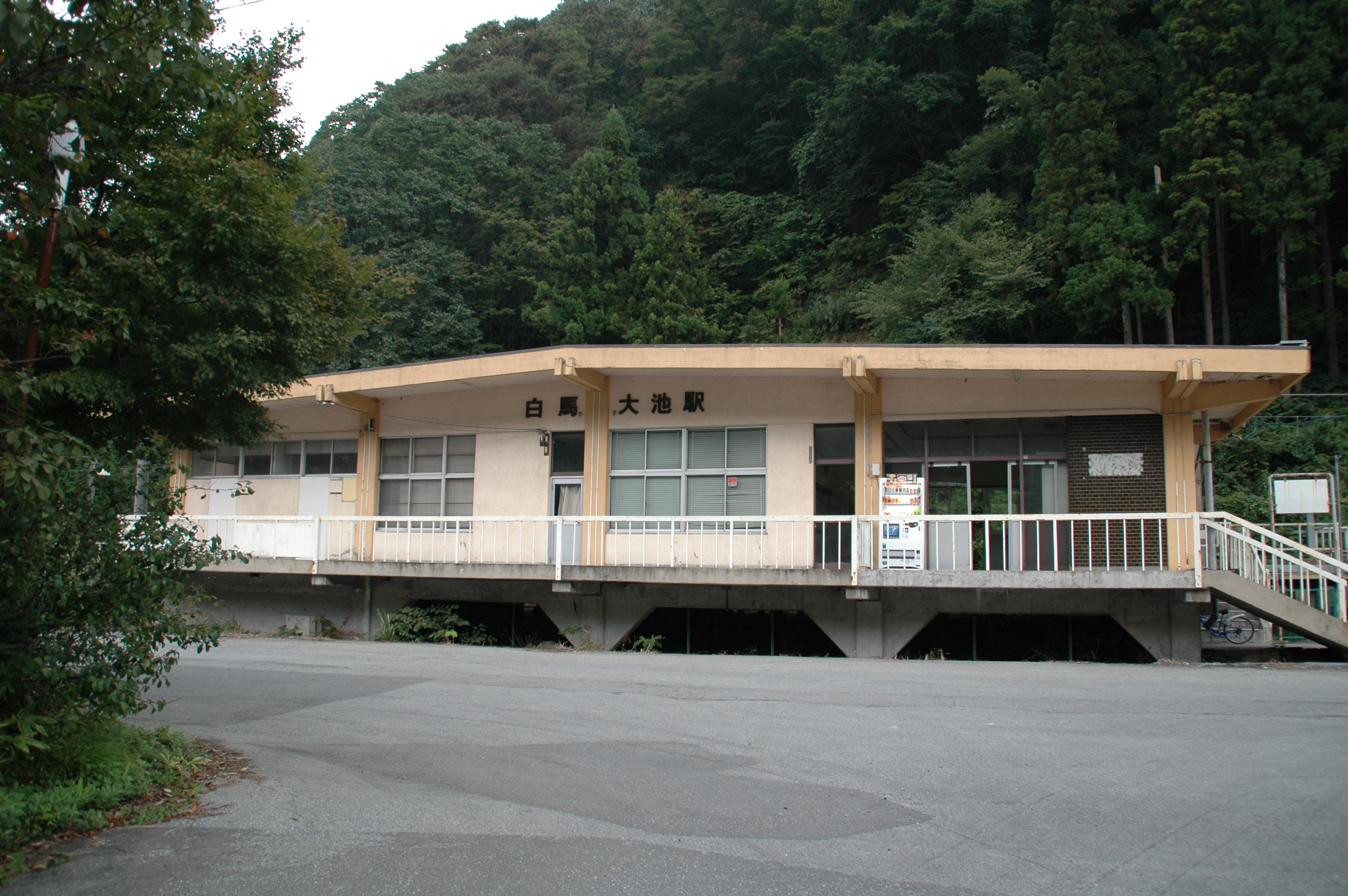 JR East Oito Line Hakuba-Oike Station in Otari, Nagano, Japan.